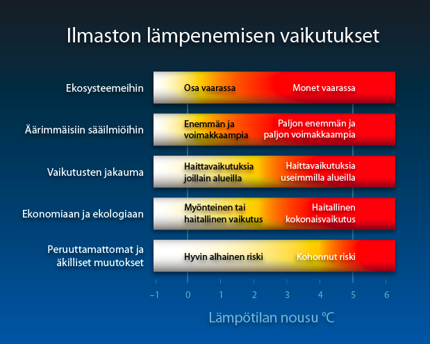 A graph in Finnish summarizing some of the expected impacts of global warming according to IPCC. Temperature deviations from 1990 readings.